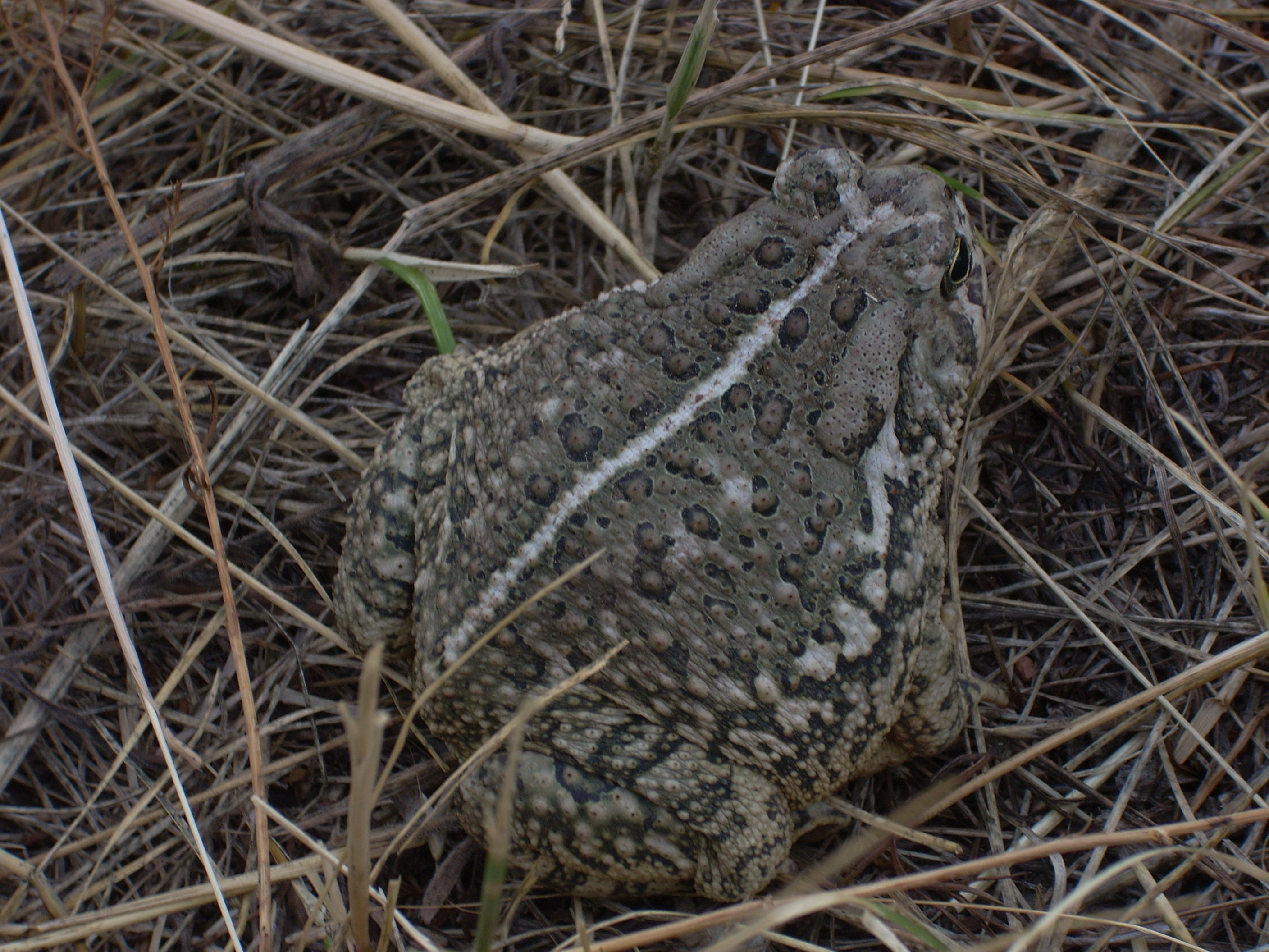 A Woodhouse's Toad (bufo woodhousii) in the woods outside Eldorado Canyon State Park in Colorado in the United States.